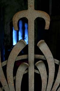 Ironwork by Mario Sarto, photographed at Ferrara, to go onto his gallery.